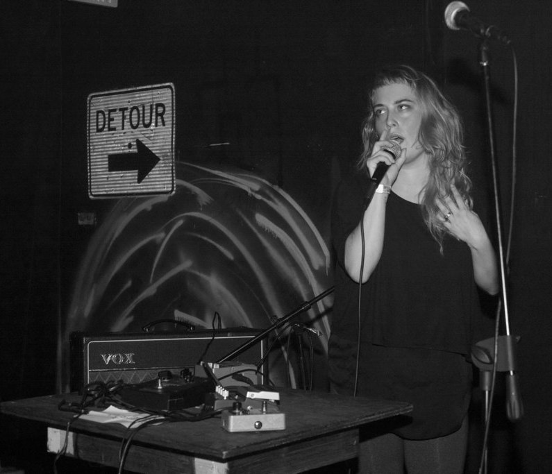 Jae Matthews, singer of Boy Harsher, performing live in 2014